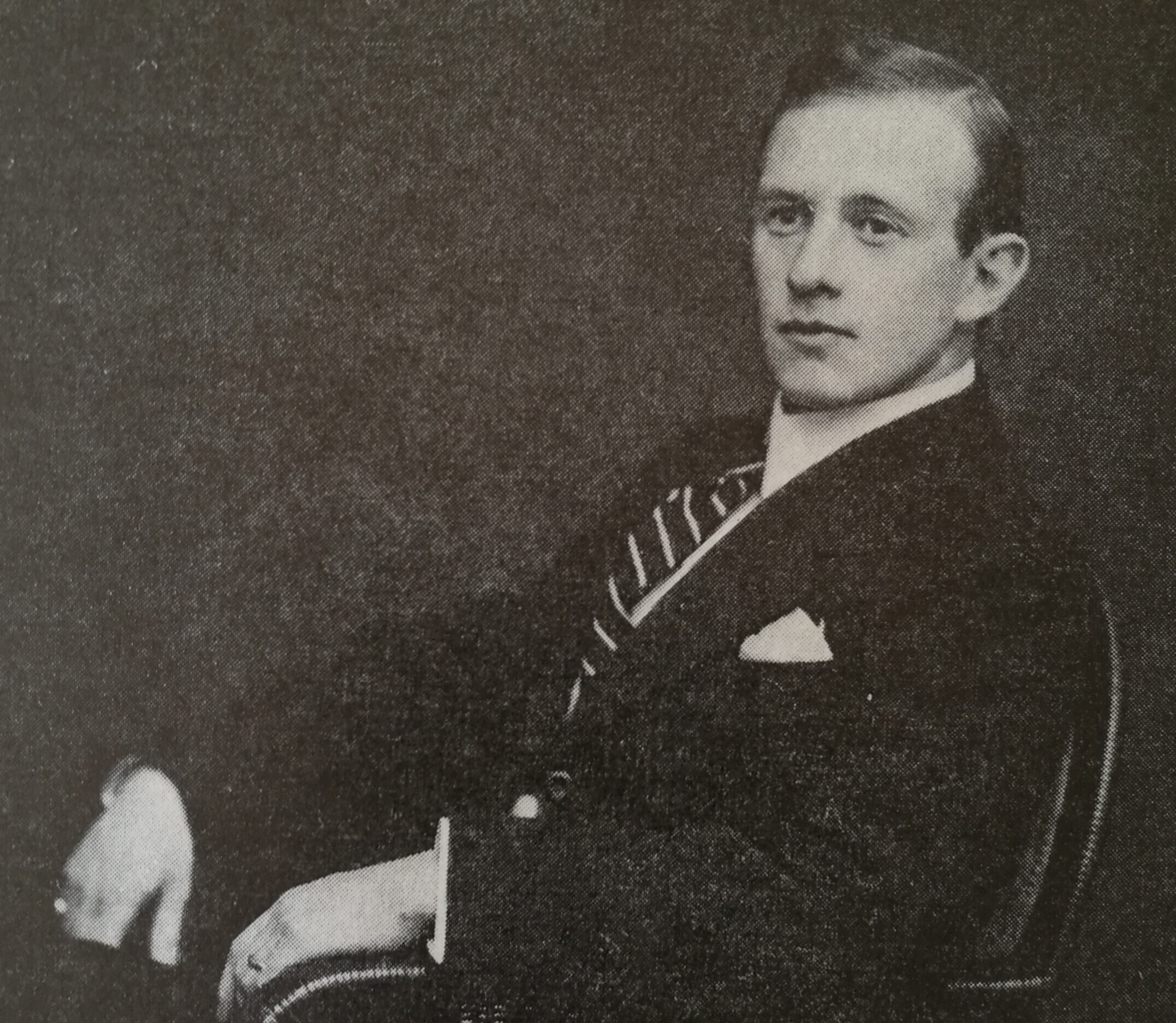 The Finnish singer Theodor Weissman in Vyborg in the 1910s, photo by Daniel Nyblin